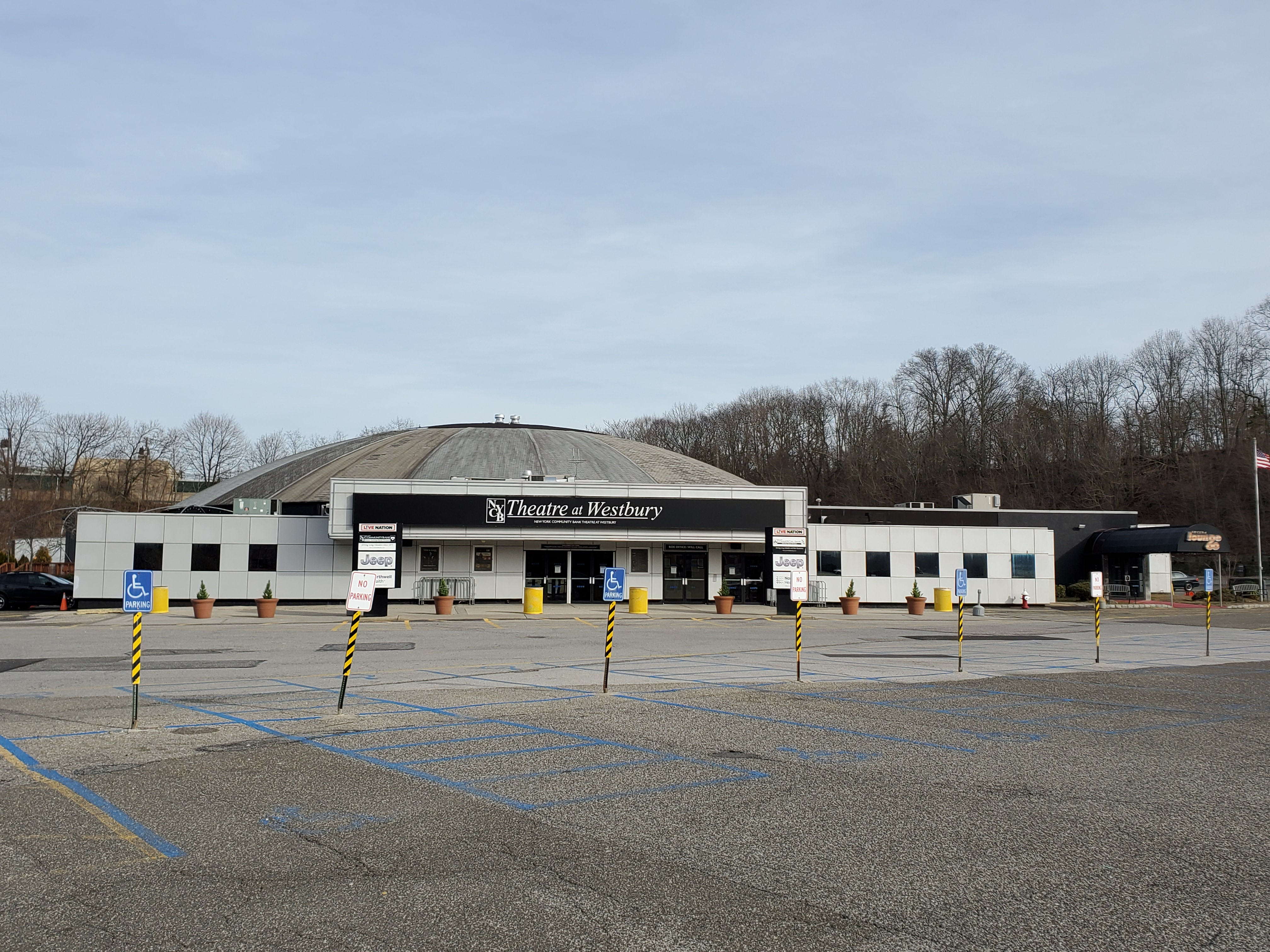 A picture of the NYCB Theatre at Westbury in 2020.